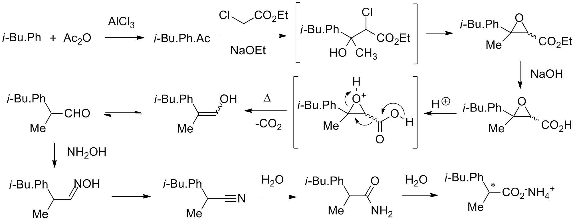 h**p://